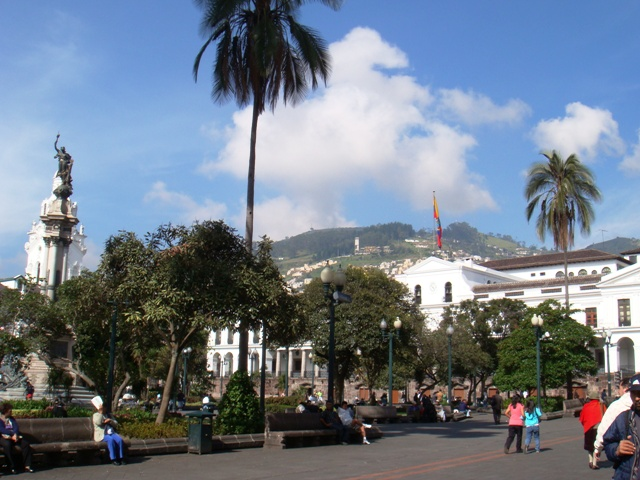 Plaza de la Indipendencia (also known as Plaza Grande), Quito.